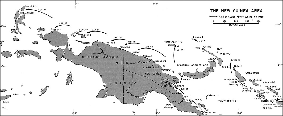 The New Guinea Area - Axis of Allied Advance with Dates